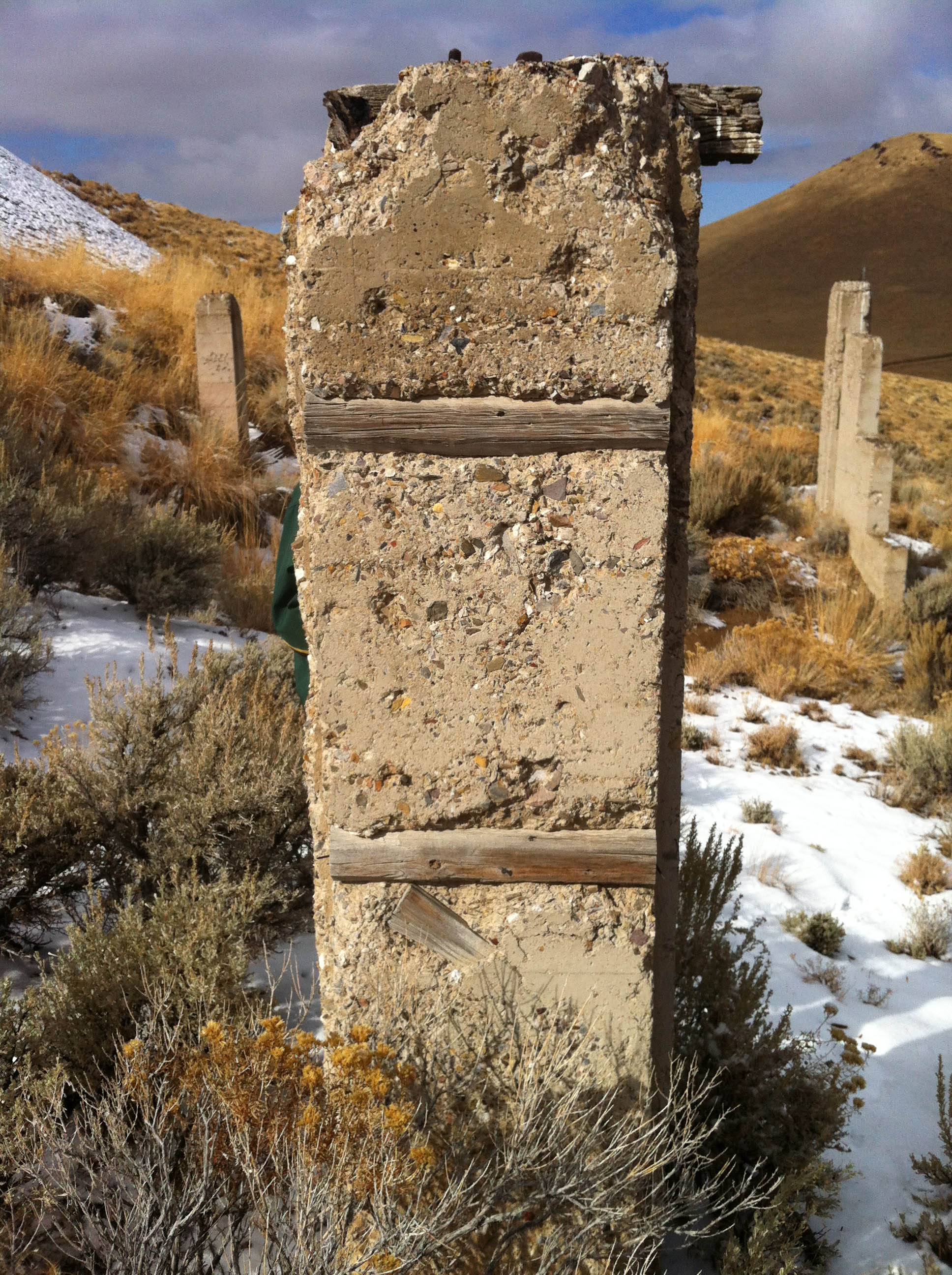 Remnants of the mill that processed ore early in the 20th century. Shiveley mine, Winnemucca Mountain.